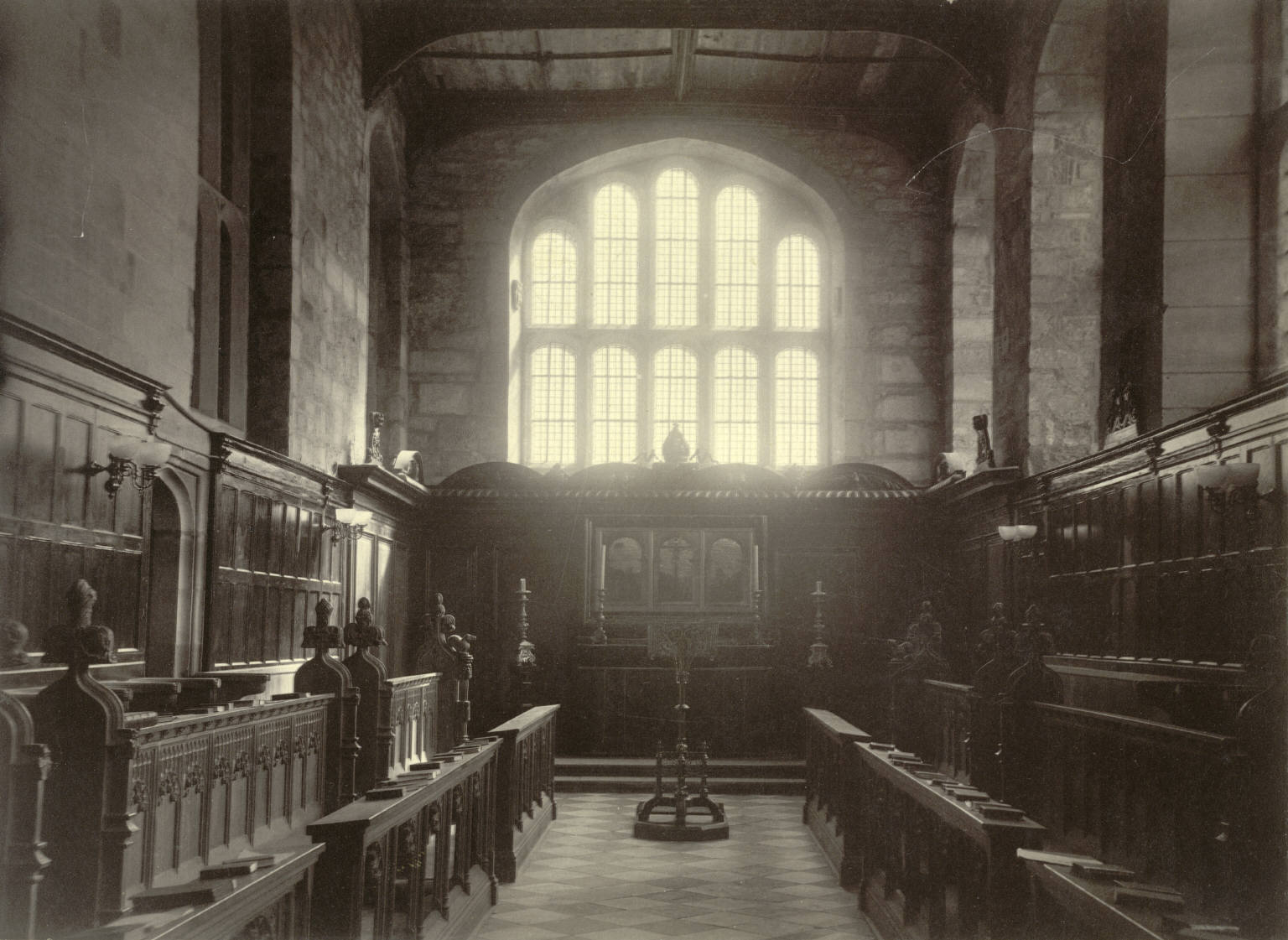 Tunstall Chapel, University College, Durham (Durham Castle)